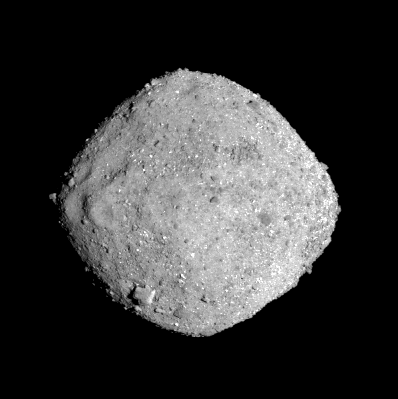 This view of asteroids 101955 Bennu has been cropped from the original image. Original Description: NASA’s OSIRIS-REx spacecraft obtained this image of the asteroid Bennu on November 16, 2018, from a distance of 85 miles (136 km). The image, which was taken by the PolyCam camera, shows Bennu at 300 pixels and has been stretched to increase contrast between highlights and shadows.